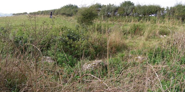 Hampton Down stone circle. This rather overgrown neolithic stone circle lies alongside the inland coast path on Hampton Down above Portesham. A sign on the stile next to the circle reads: "THIS STONE CIRCLE IS AN ANCIENT MONUMENT SCHEDULED BY THE MINISTRY OF PUBLIC BUILDING AND WORKS. IT WAS EXCAVATED IN 1965 AND THE STONES RE-INSTATED IN THEIR ORIGINAL SOCKETS. THE ORIGINAL CIRCLE WAS PROBABLY CONSTRUCTED BETWEEN 1800 AND 1200 B.C. STRUCTURES OF THIS TYPE ARE CONSIDERED TO HAVE HAD A RITUAL SIGNIFICANCE." A few years ago the site was cleared of brambles, but nature has reclaimed it once again.